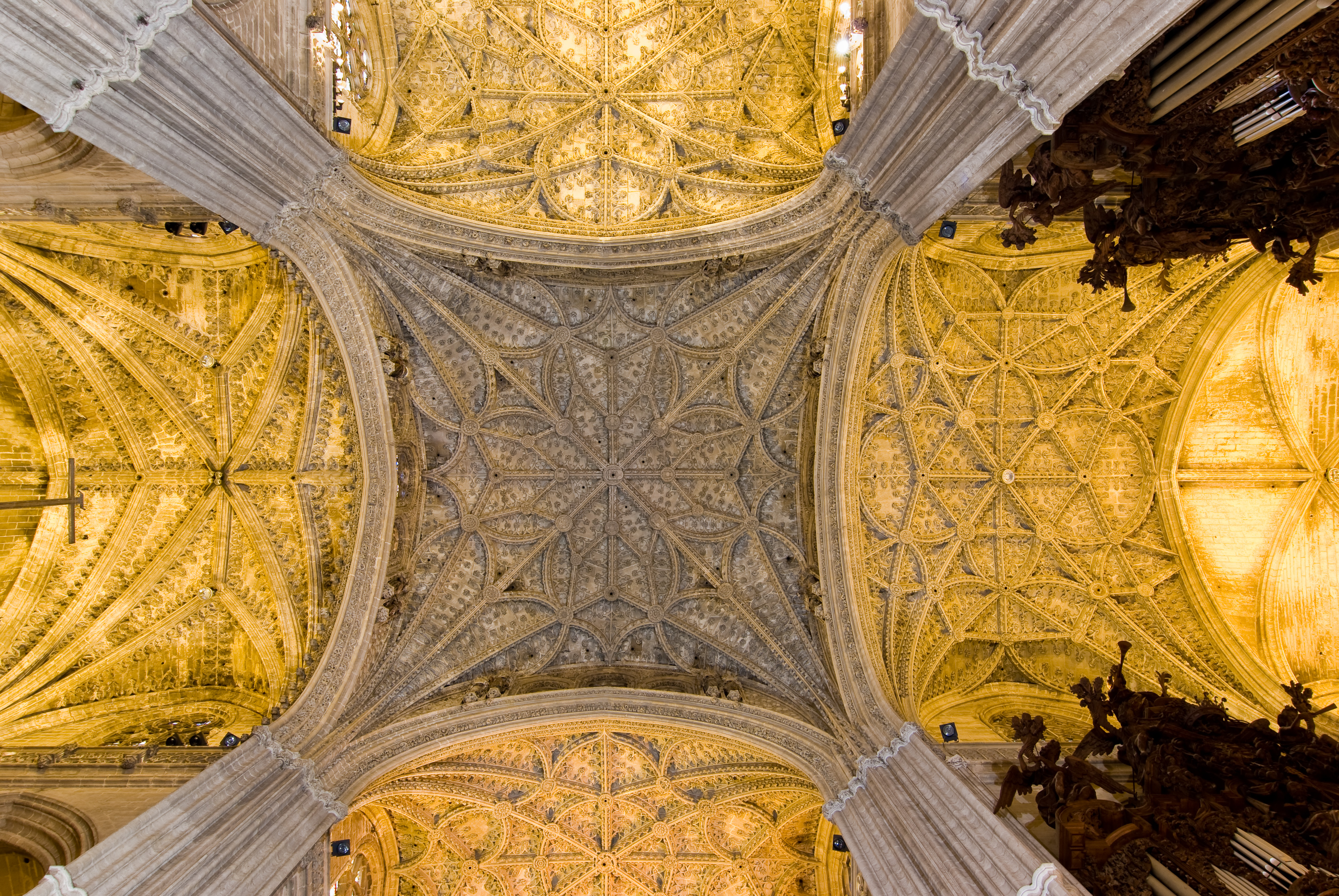 Details of vaults in front of main chapel (Seville cathedral, Spain)